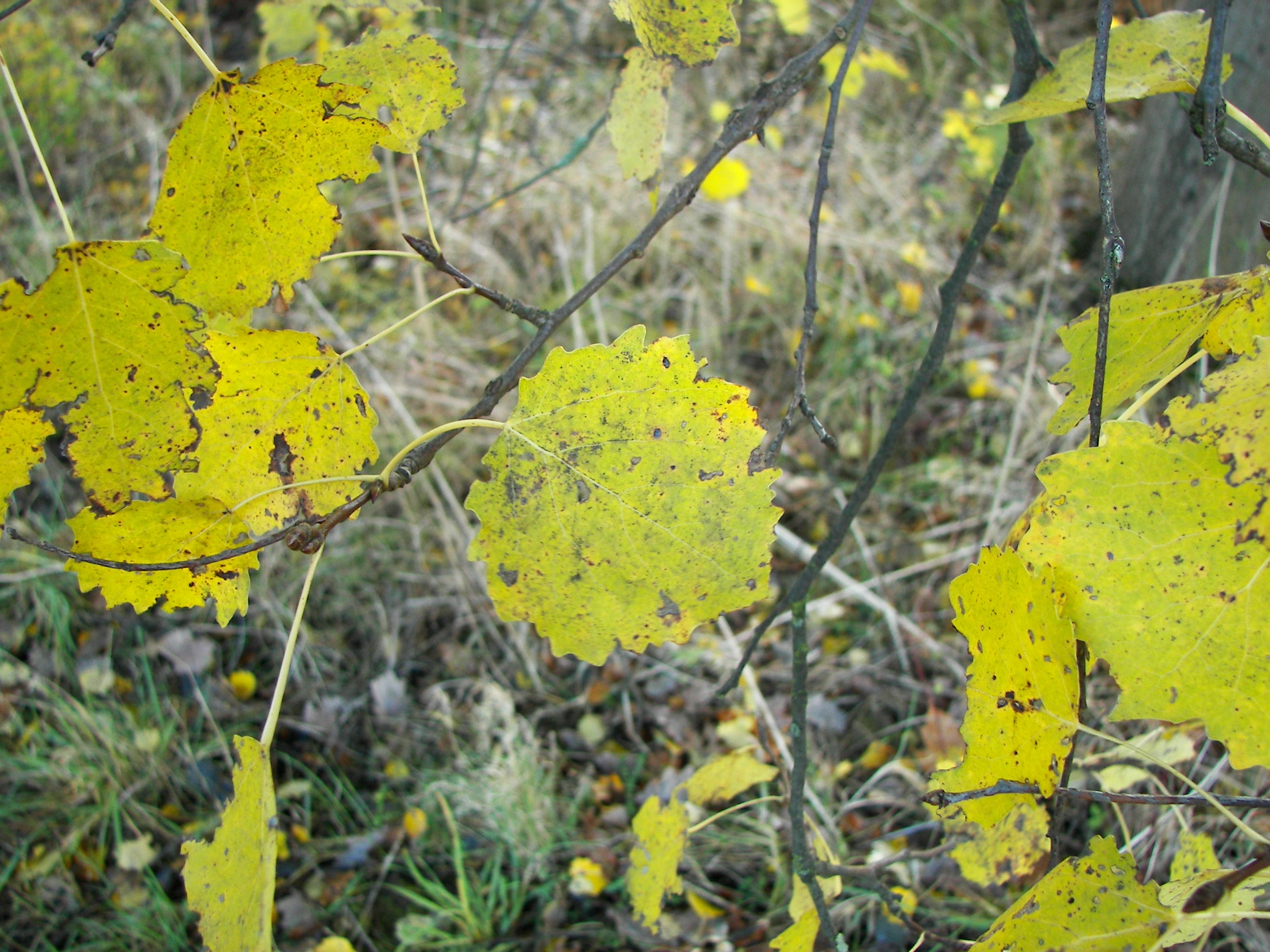 Aspen Leaves (Populus tremula) in autumn near Marburg, Hesse, Germany